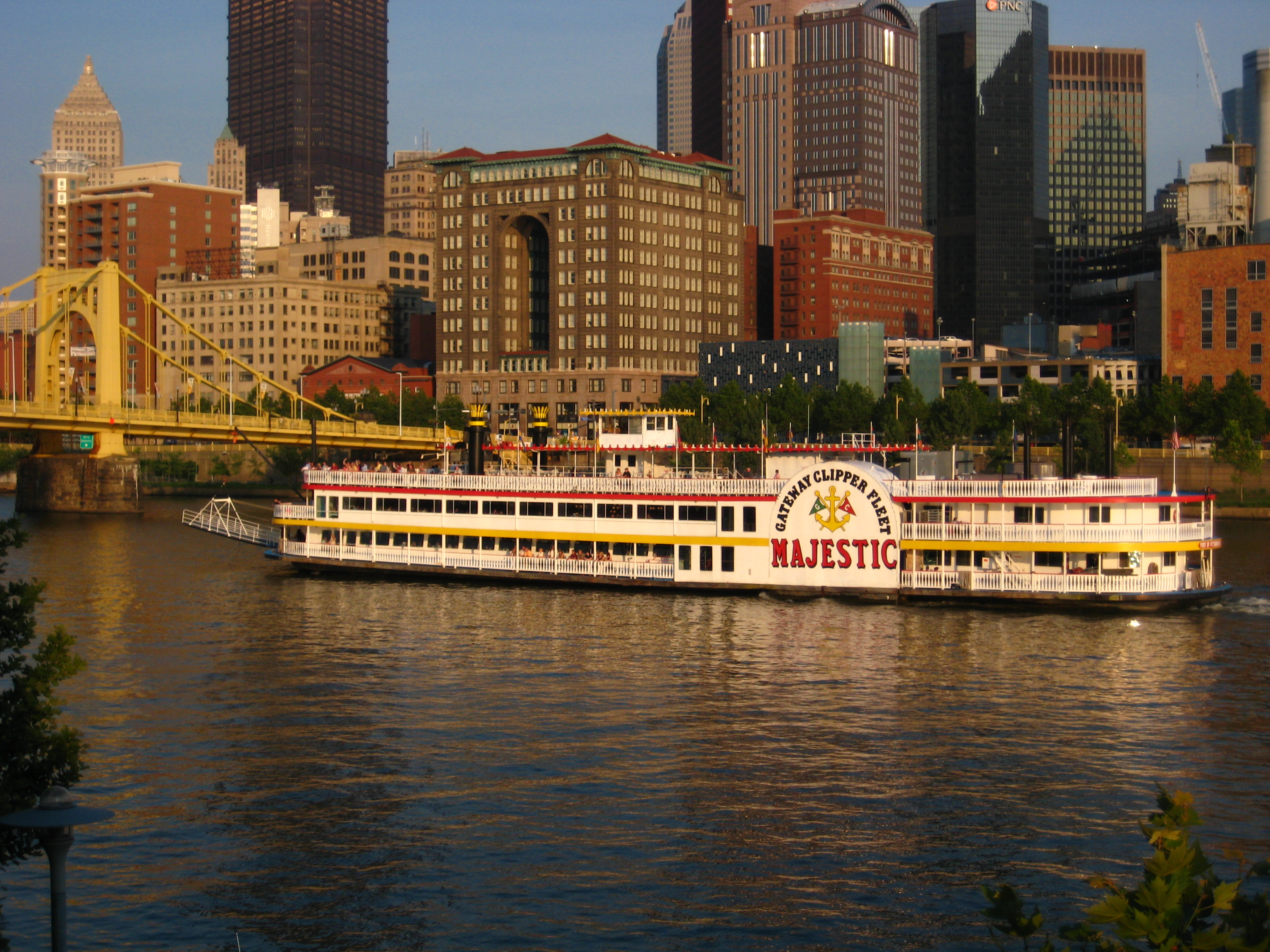 The Majestic in Pittsburgh, Pennsylvania